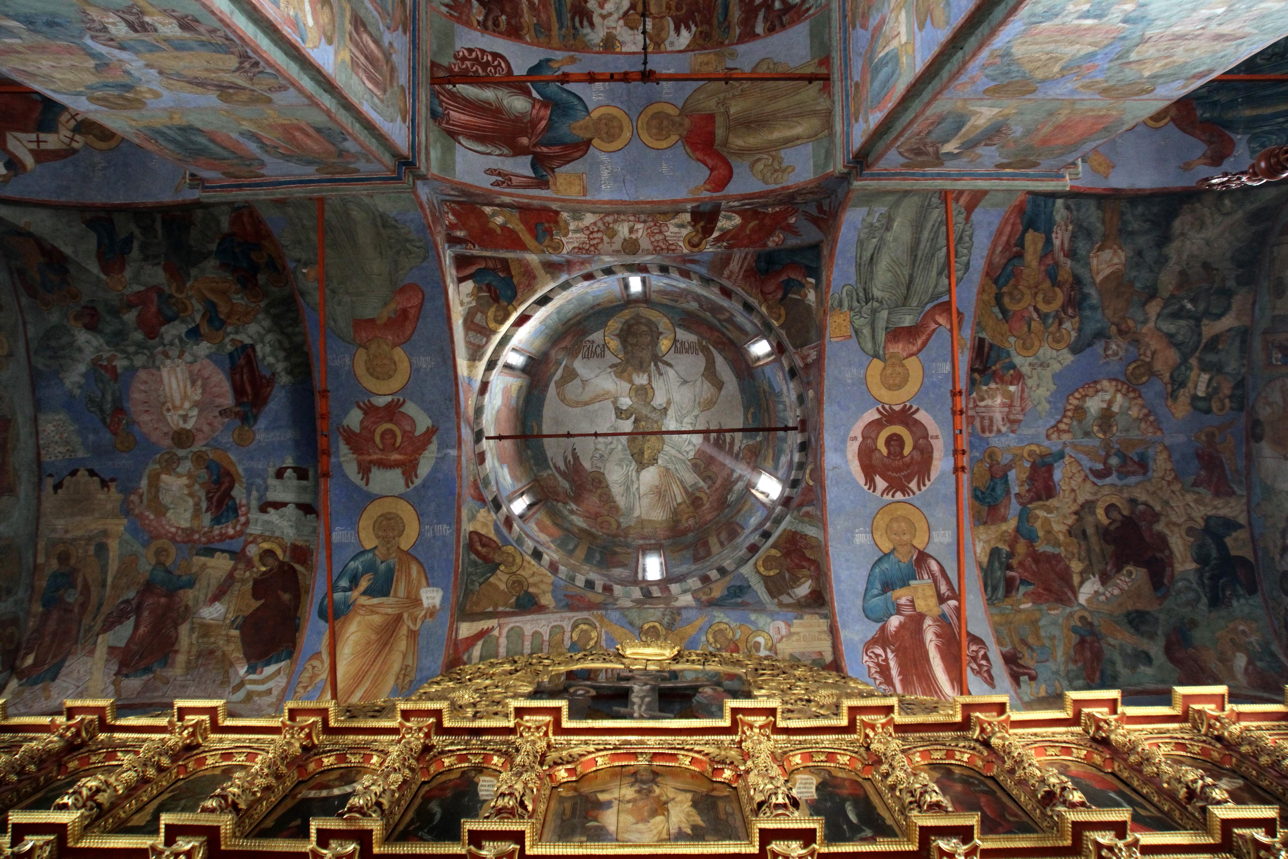 Ipatiev Monastery